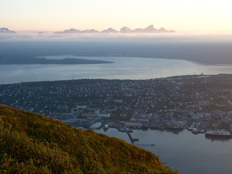 City of Tromssa in midnight in Midnight sun, photographed from above from the mountain nearby, some mountains in the horizon.